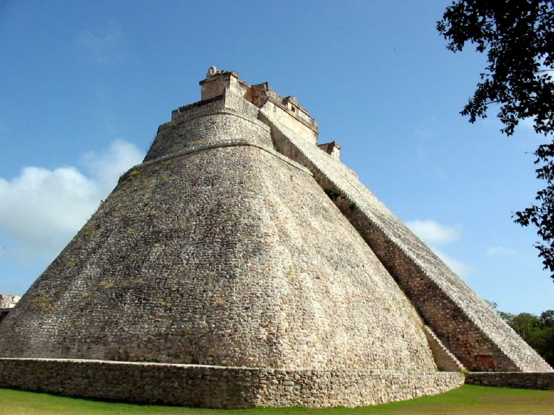 Pyramid of the Magician, Uxmal, Yucatan.